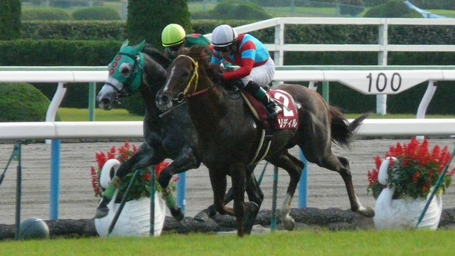 Ridill(horse)20111029(3)